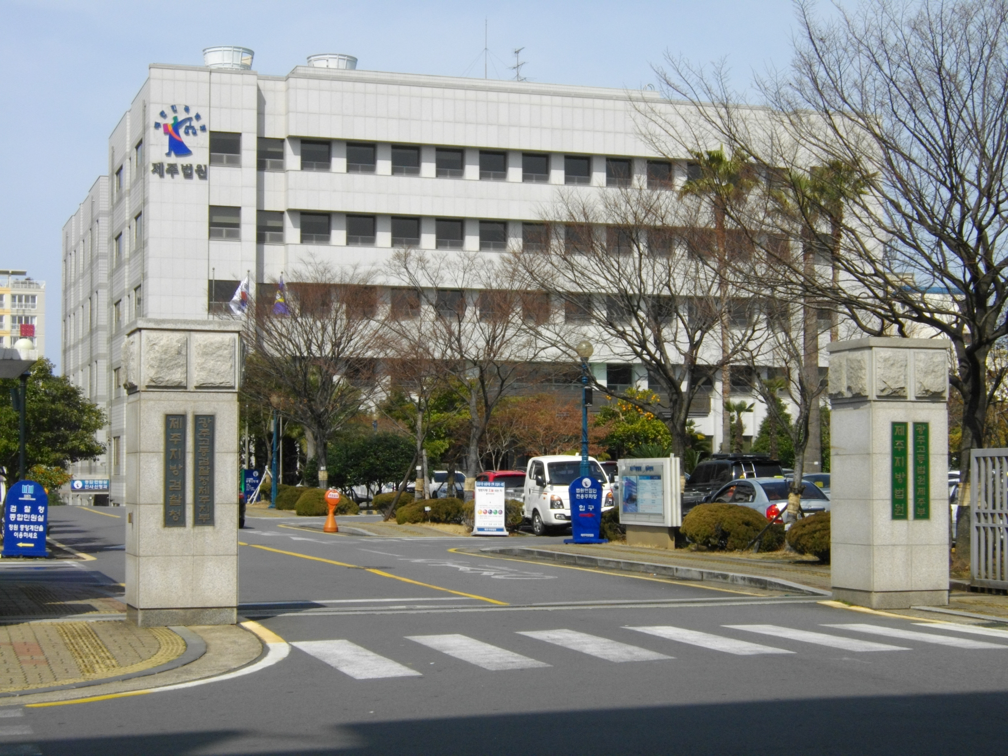 Jeju District Court